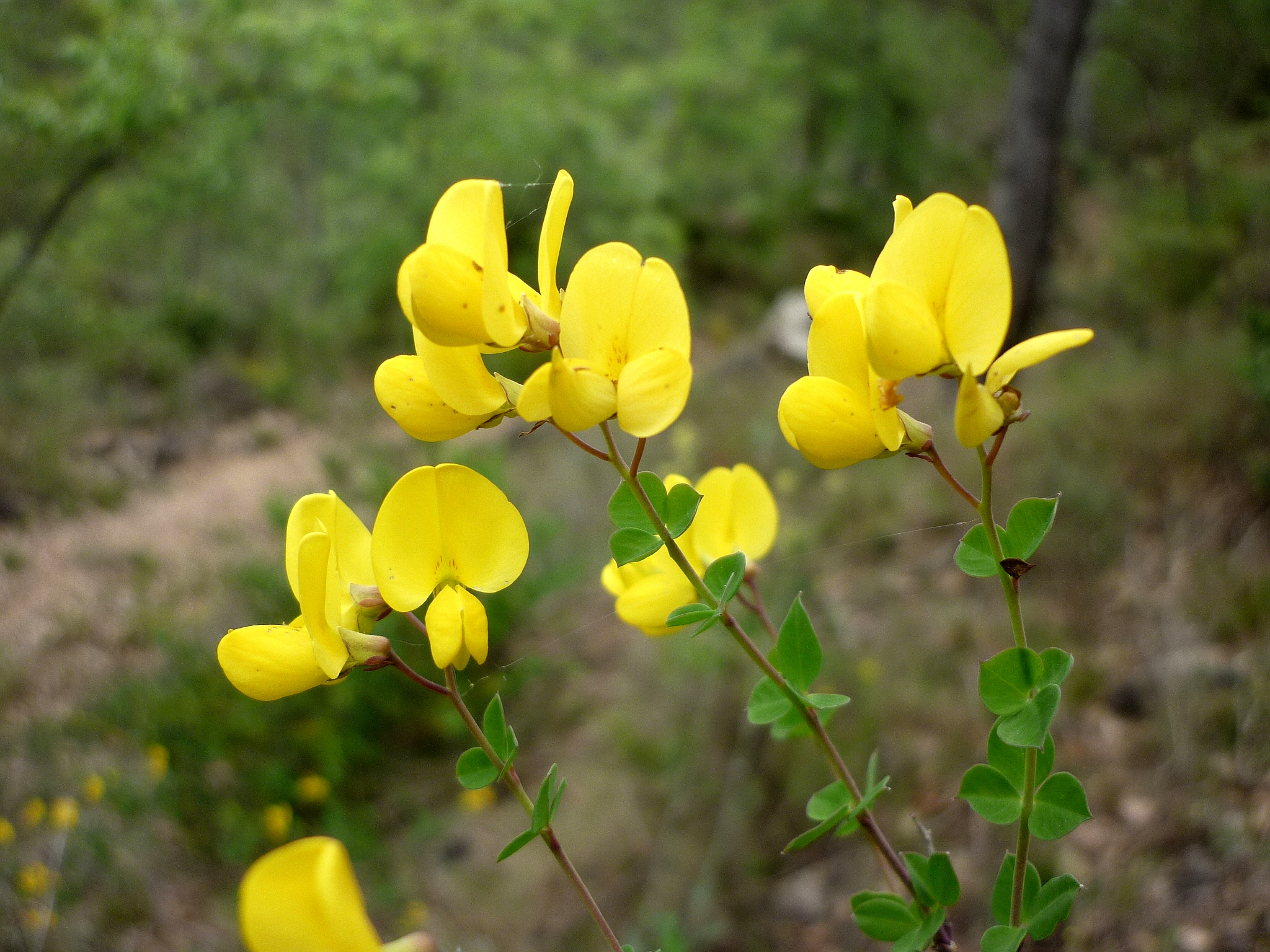 Cytisophyllum sessilifolium. In Torà (Segarra-Catalunya). To 530 m. altitude